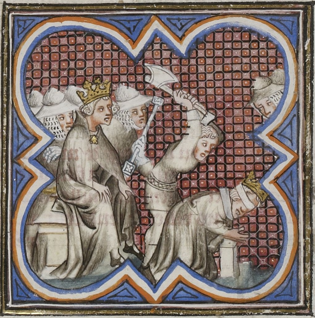 Peter I decapitated by order of Henry II of Castille. Source: Manuscript from 15th century (Grandes Chroniques de France: Bibliothèque nationale de France).